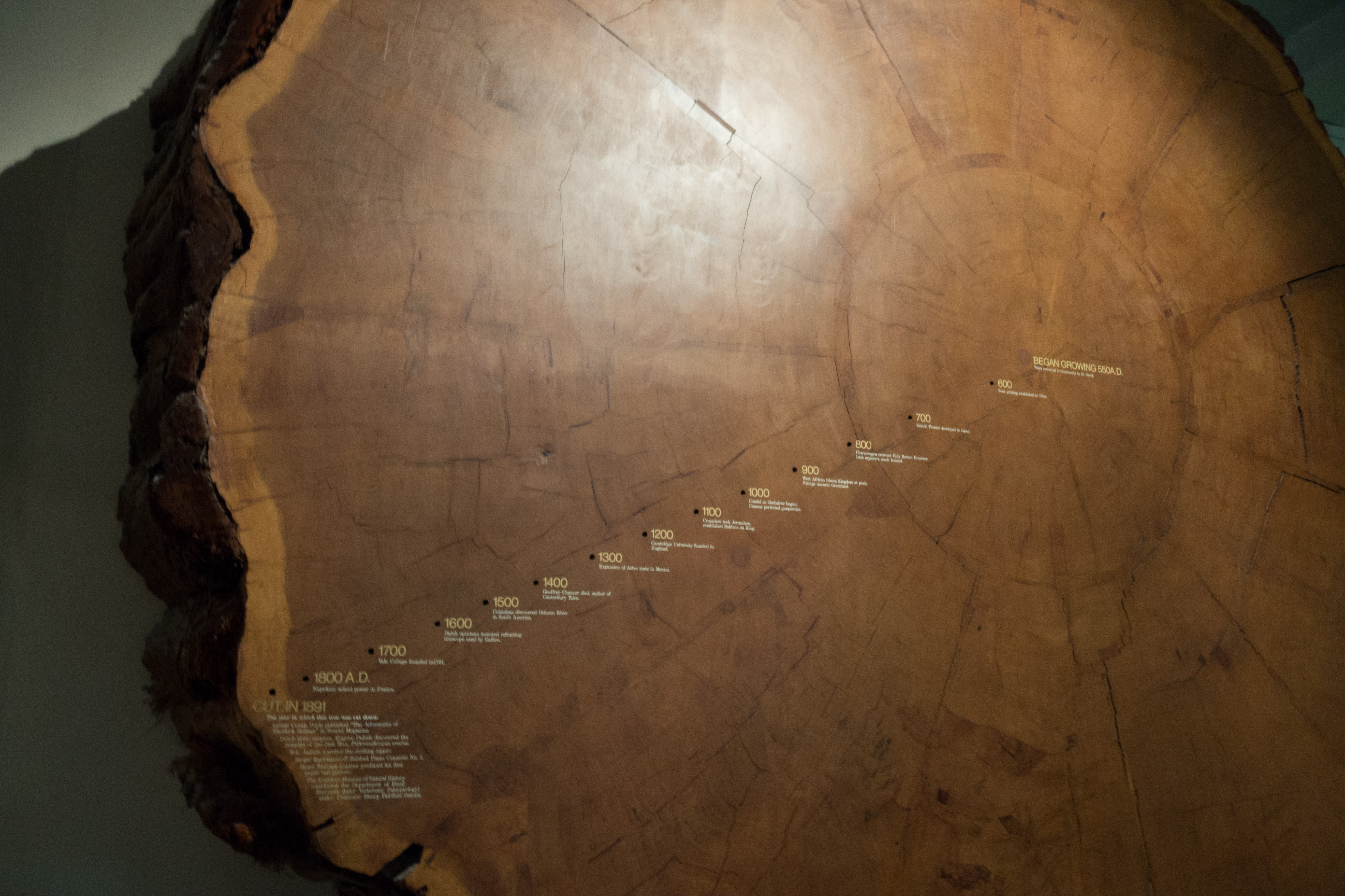 American Museum of Natural History, New York City, 2015